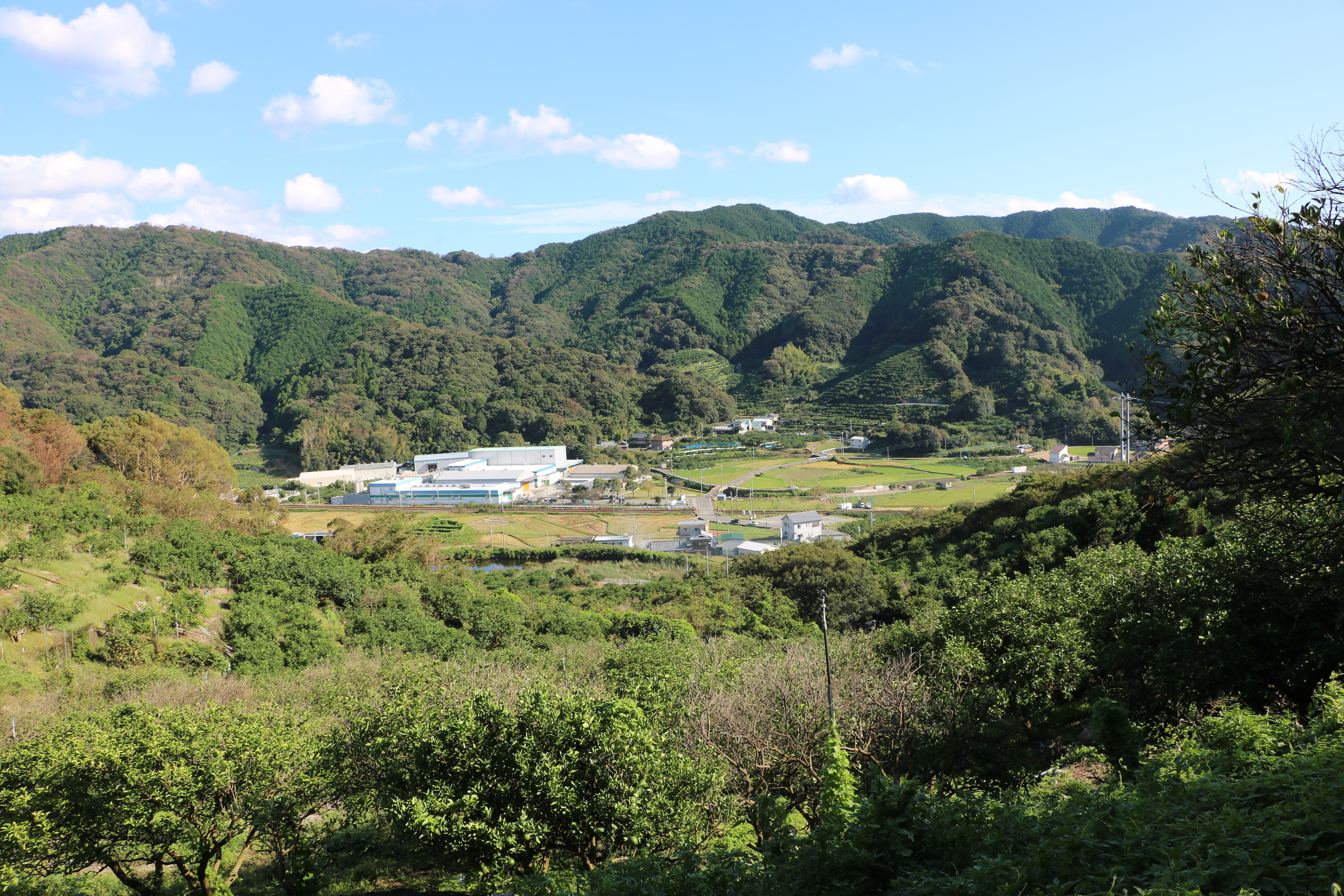 View from Monzen no Oiwa